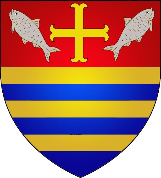 Coat of arms of the municipality of Consthum, Luxembourg (valid until 1 January 2012)